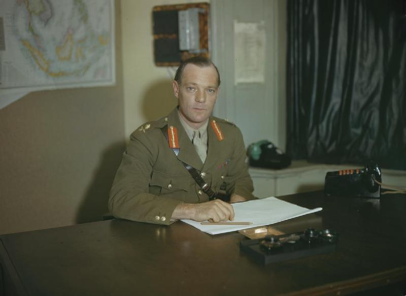 Combined Operations in England, 1943 Major General R Laycock DSO, Chief of Combined Operations, England.